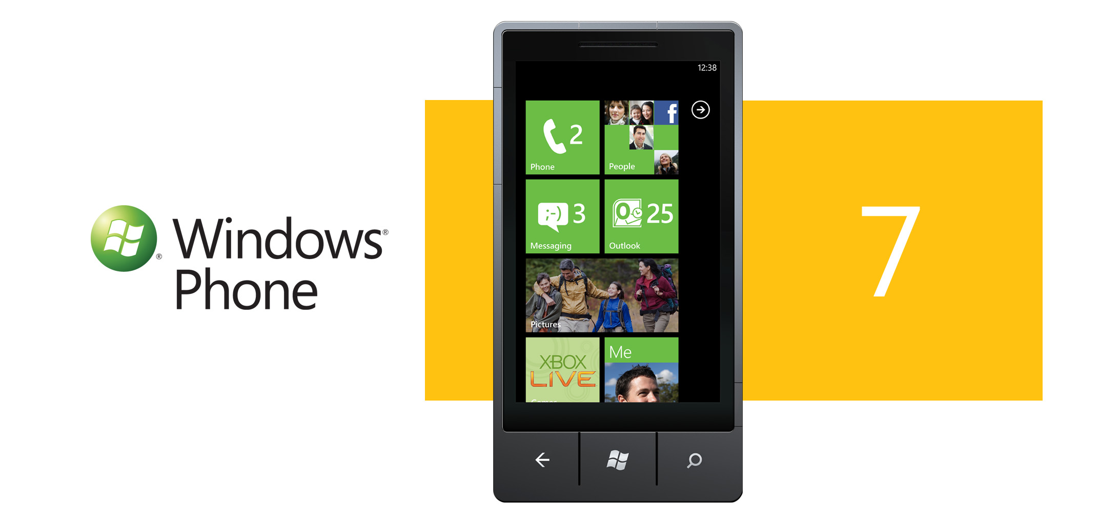 Windows Phone 7